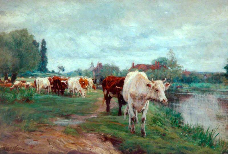 Cattle